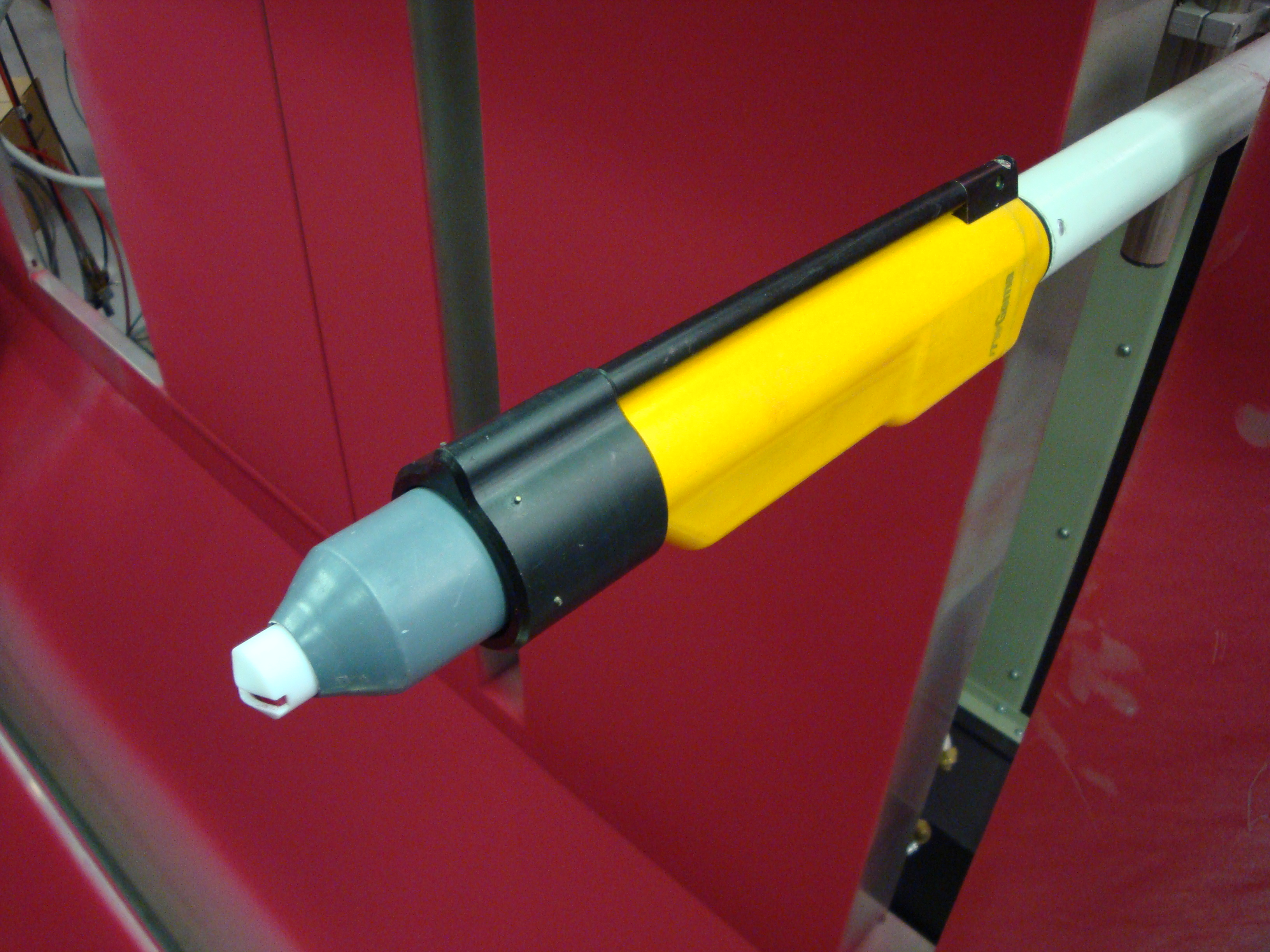 Powder spray gun